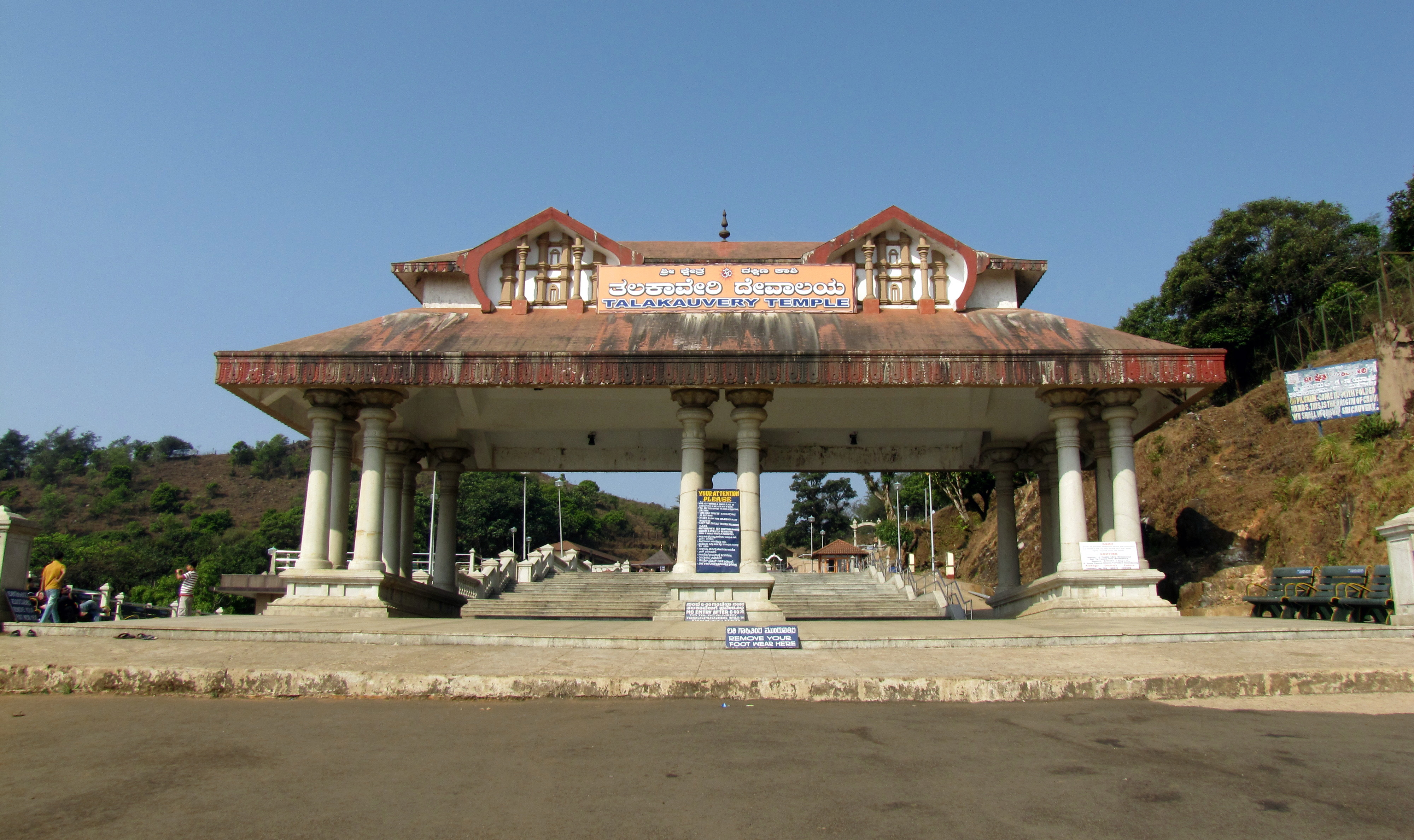 Thalakauvery temple, near Bhagamandala, Karnataka, India. This is a holy place, which is the origin of Kauvery river.